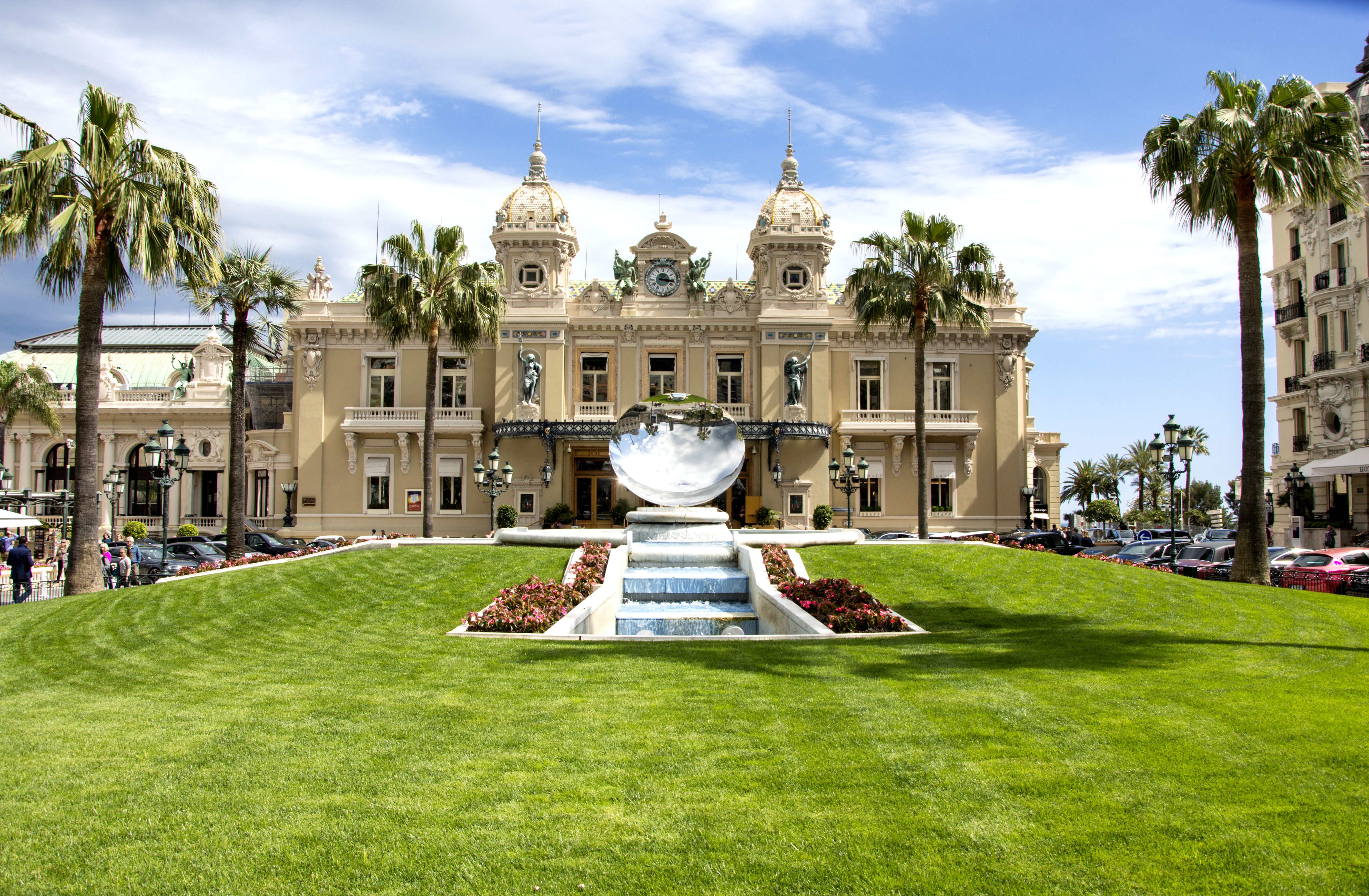 Casino Monte-Carlo